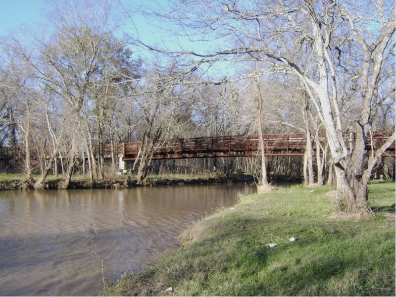 Looking at the Buffalo Bayou in George Bush Park.